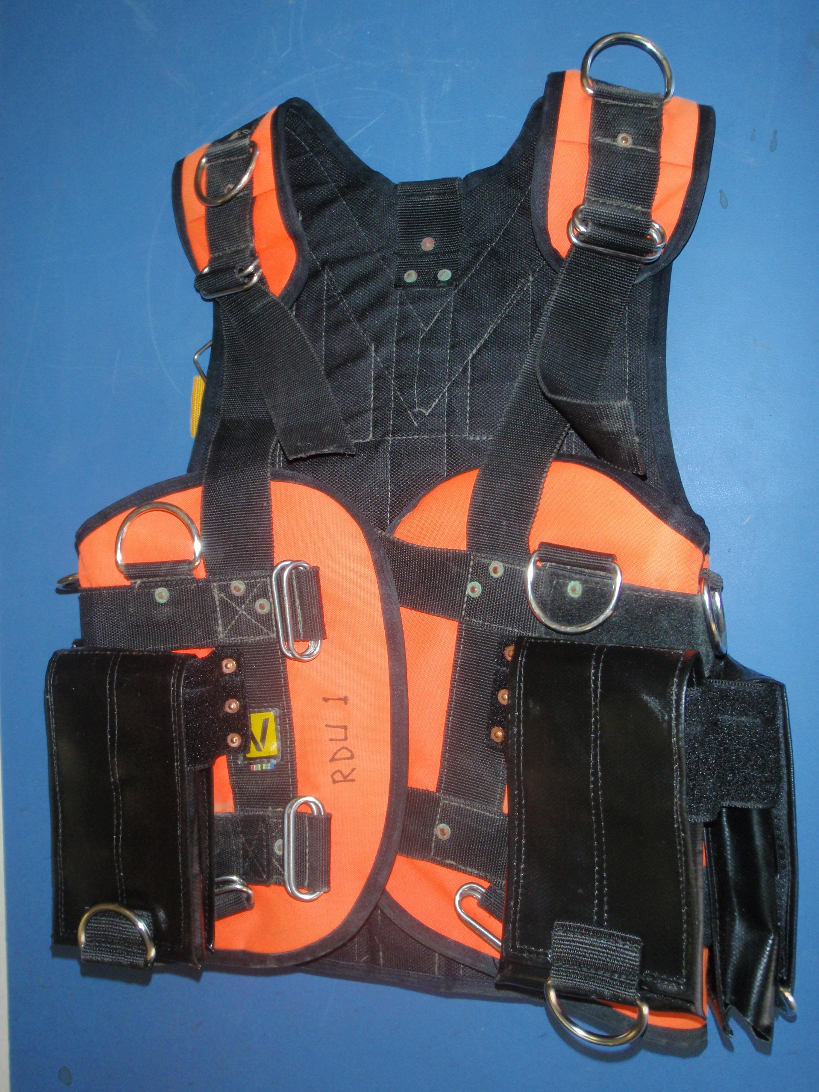 Safety harness for surface supplied diving with ditchable weight pockeds